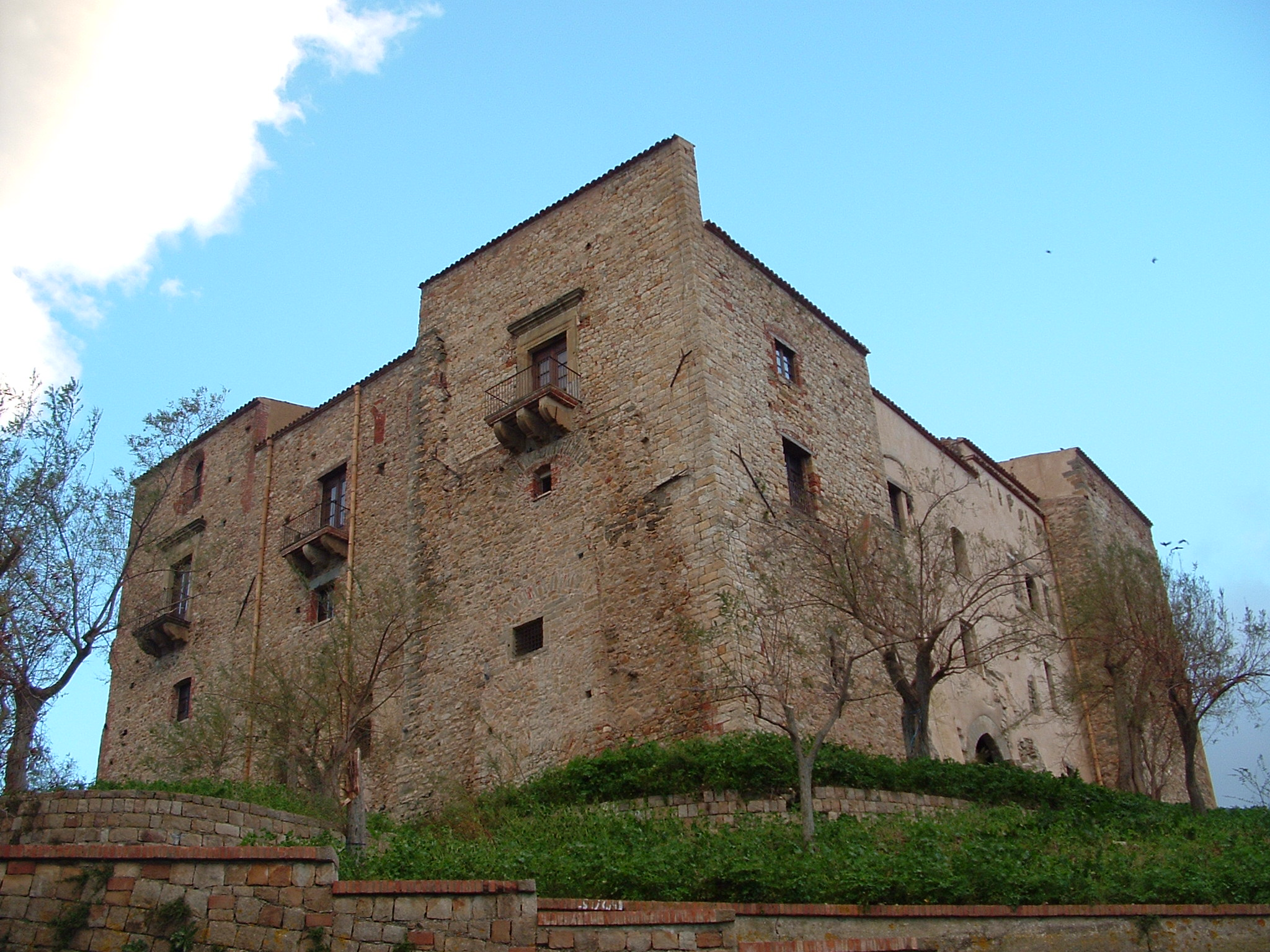 Castello dei Ventimiglia (Backside) in Castelbuono, Provincia di Palermo, Sicily, Italy